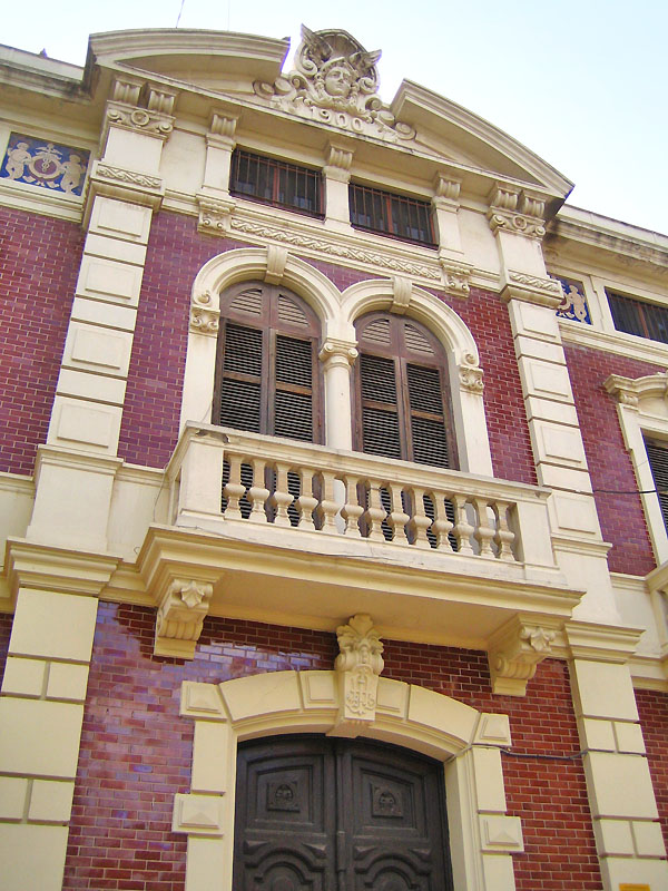 Aiora Mansion, in Valencia